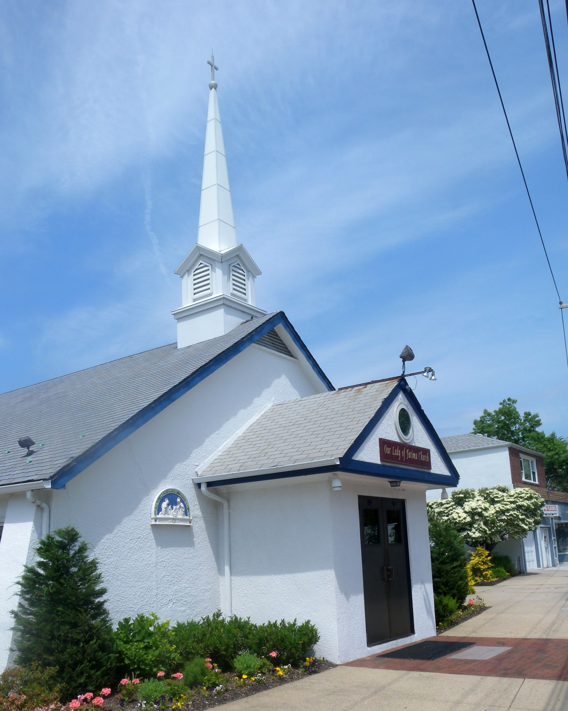 Looking northeast from Cottonwood Road at Our Lady of Fatima church on a mostly sunny midday.